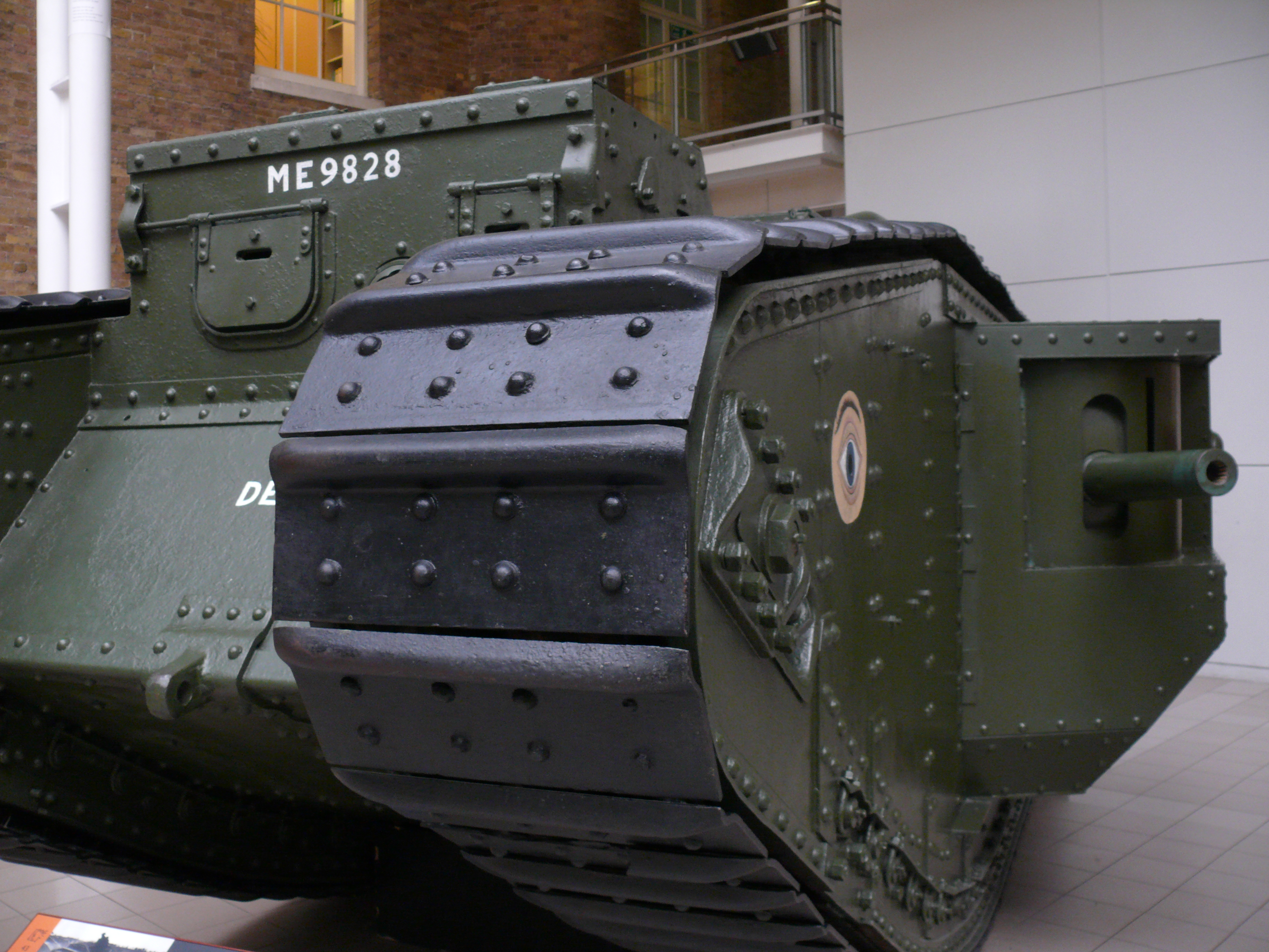 Left front view of British Mk V tank "Devil" at the Imperial War Museum, London.